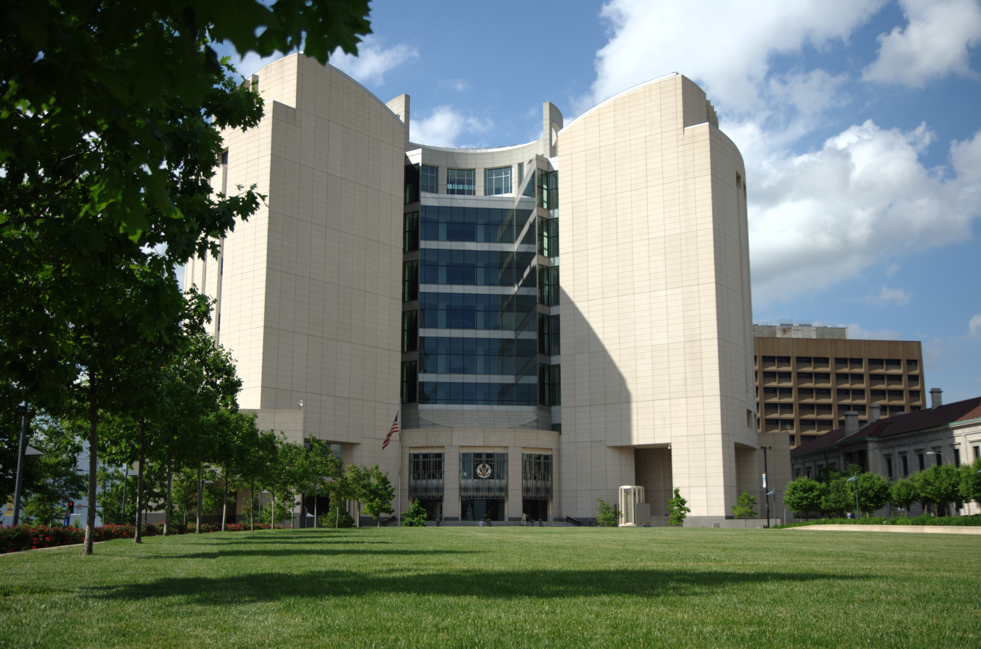 The Charles Evans Whittaker Federal Courthouse in downtown Kansas City, Missouri is home to the United States District Court for the Western District of Missouri